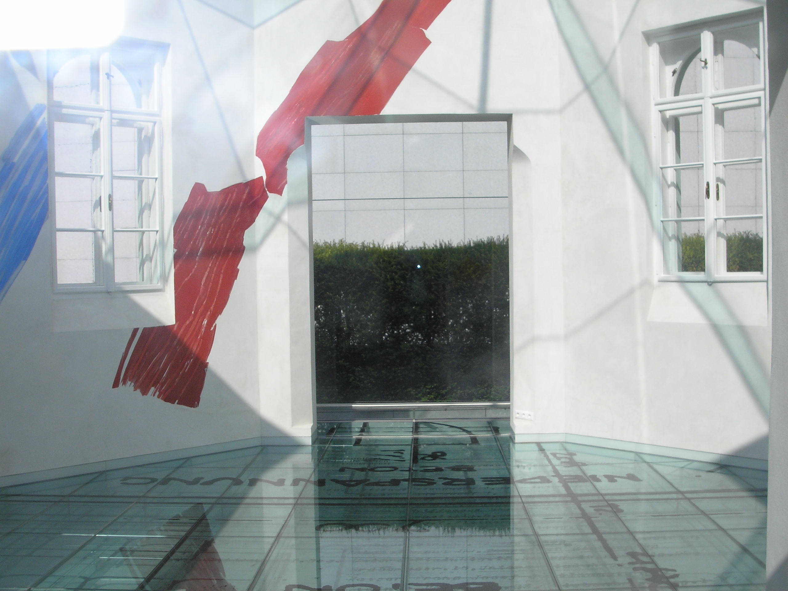 Detailed view of the synagogue in the Allgemeines Krankenhaus Wien. Constructed by Max Fleischer in 1903, devastated by the Nazis in 1938, renovated in 2005.